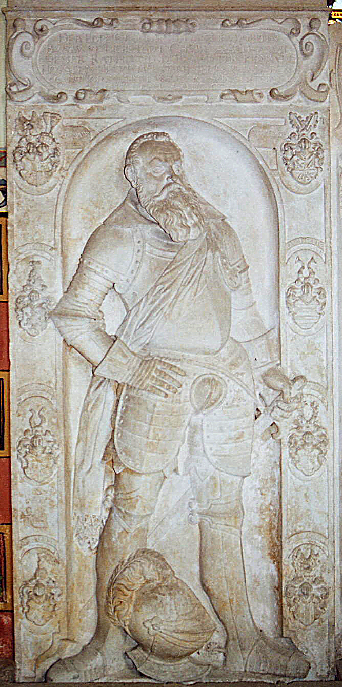 This image shows the memorial plate of Rudolf von Bünau in the church of Liebstadt in Saxony, Germany.